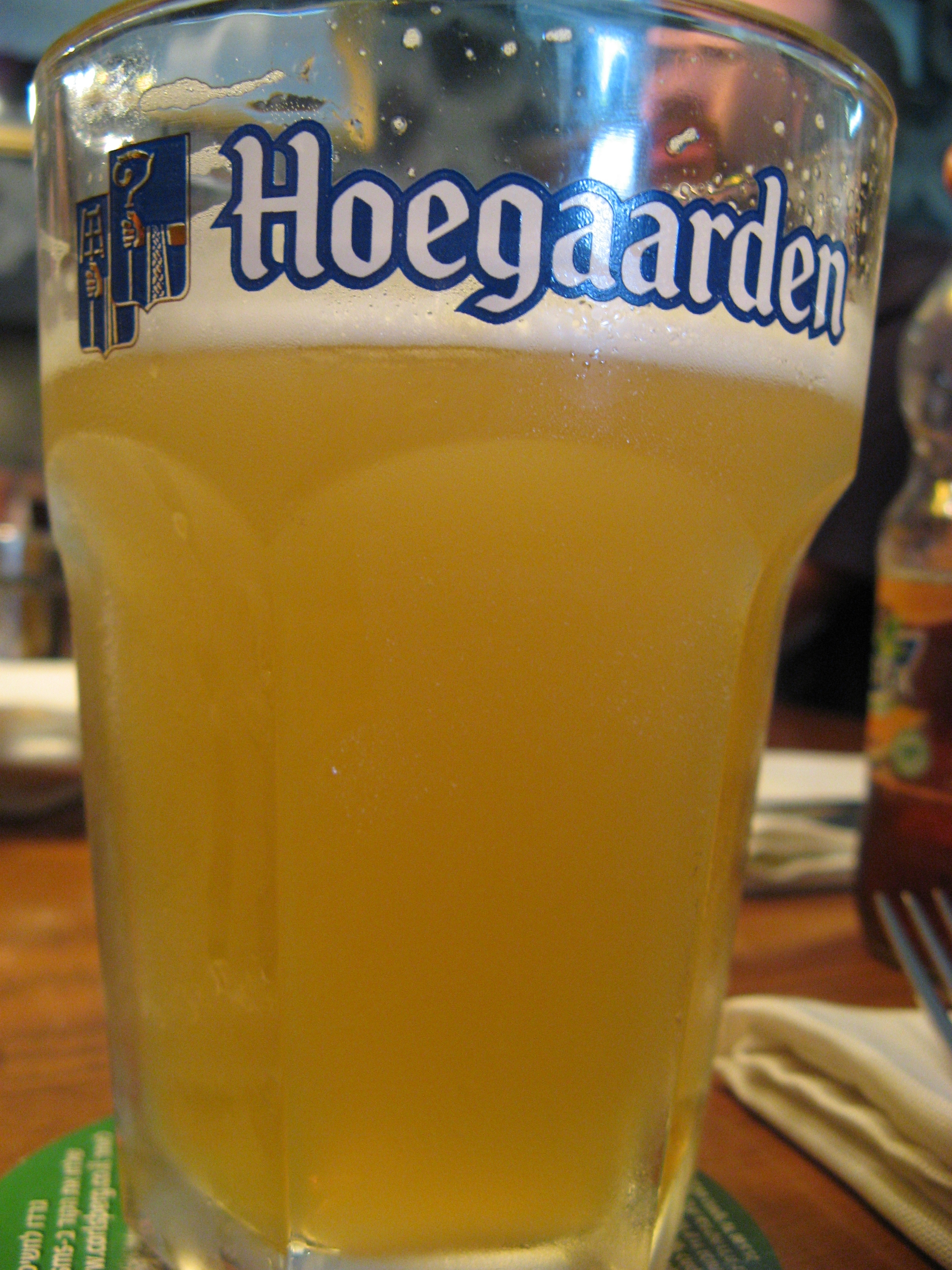 A cup of Hoegaarden.